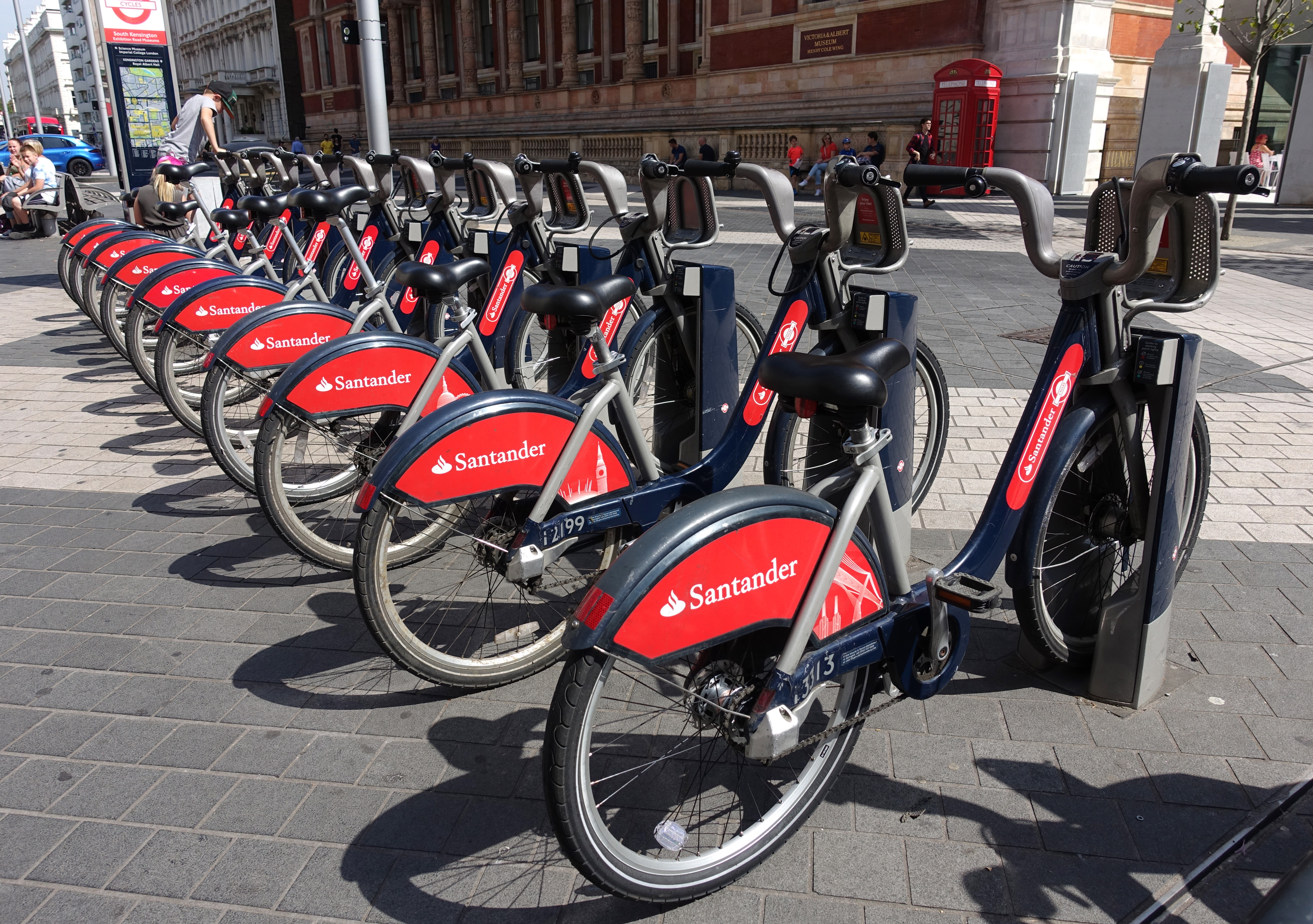 Santande bicycles on the Exhibition Road in London.